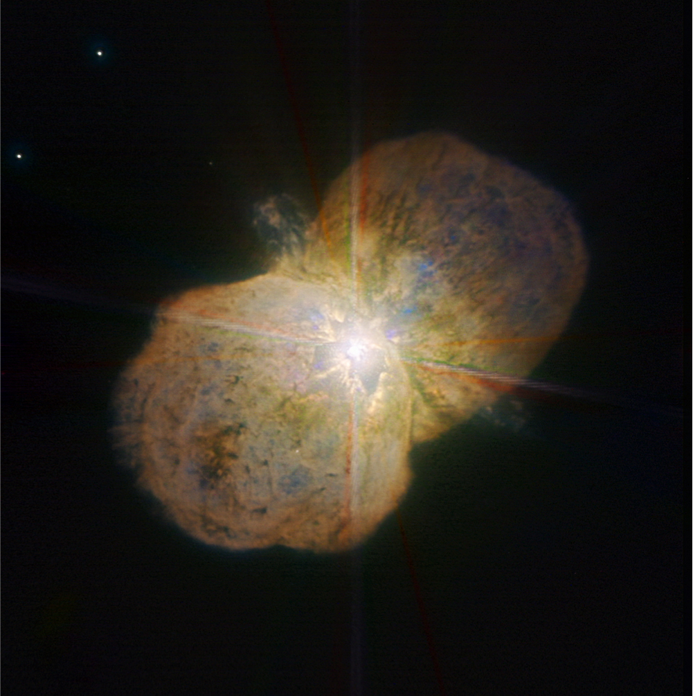 This new image of the luminous blue variable Eta Carinae was taken with the NACO near-infrared adaptive optics instrument on ESOs Very Large Telescope, yielding an incredible amount of detail. The images clearly shows a bipolar structure as well as the jets coming out from the central star. The image was obtained by the Paranal Science team and processed by Yuri Beletsky (ESO) and Hännes Heyer (ESO). It is based on data obtained through broad (J, H, and K; 90 second exposure time per filters) and narrow-bands (1.64, 2.12, and 2.17 microns; probing iron, molecular and atomic hydrogen, respectively; 4 min per filter).